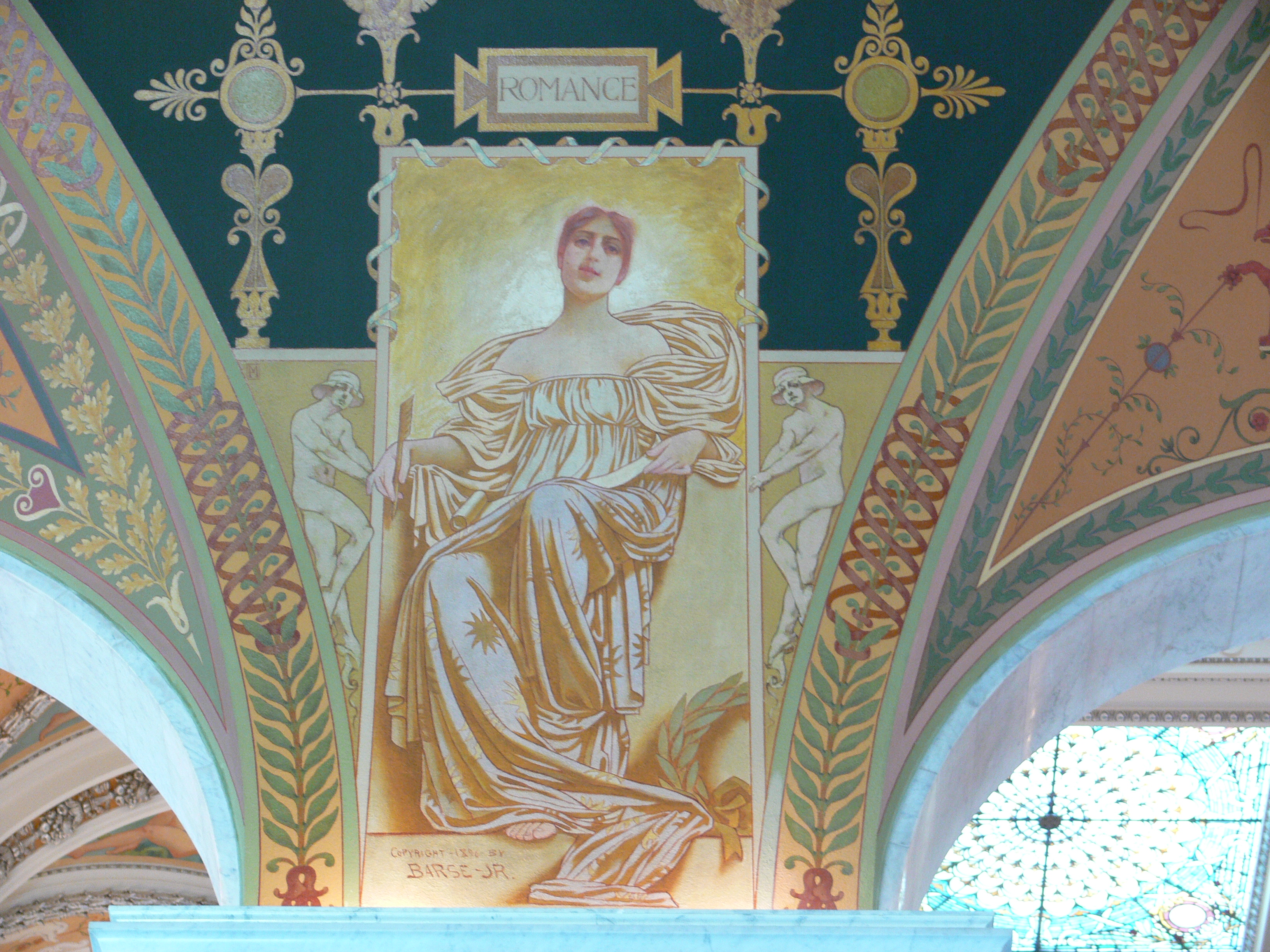 Romance, by George Randolph Barse (1861-1938) Great Hall, Library of Congress (Jefferson Building), Washington, D.C.